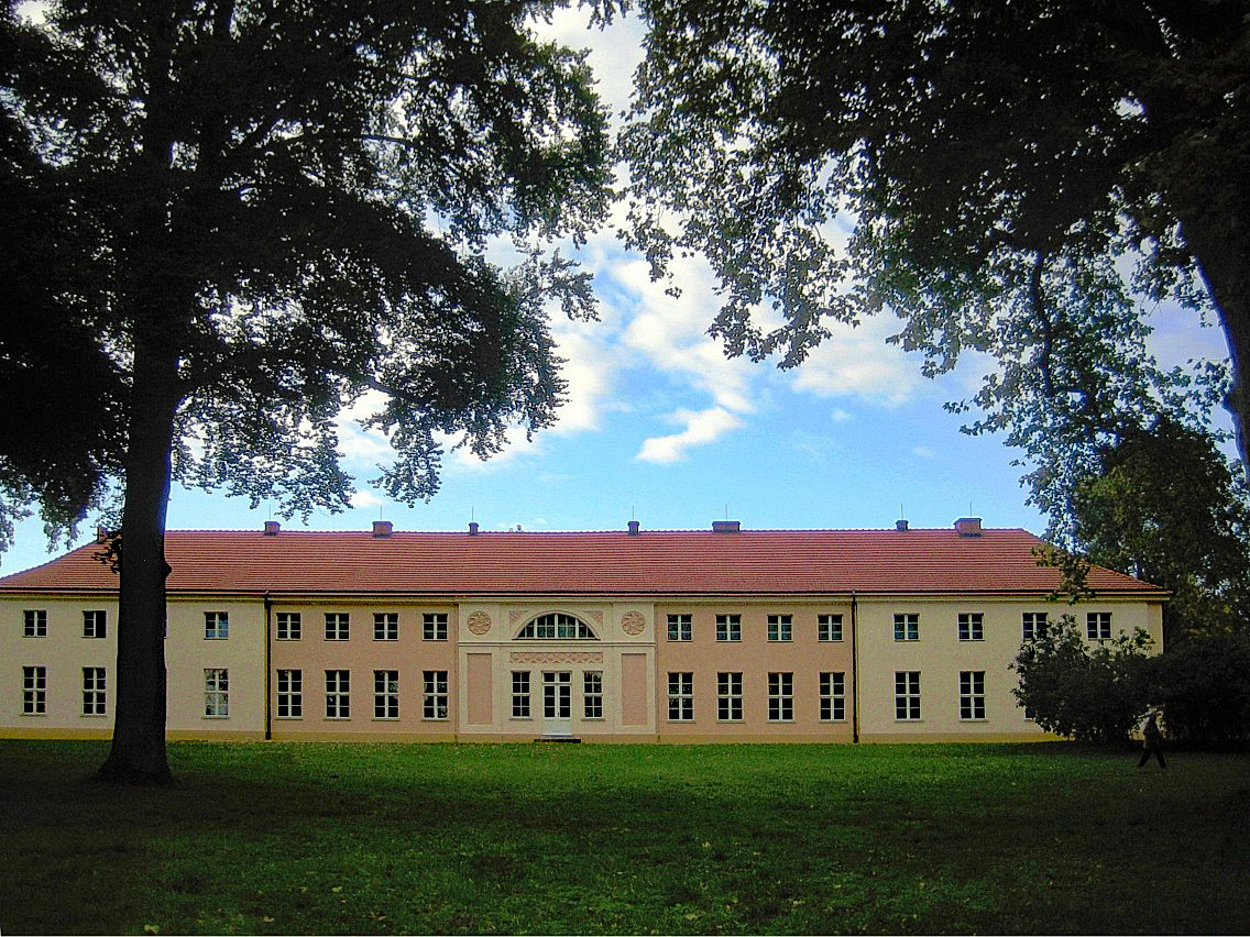 The palace in Paretz, a village near Potsdam, Germany. Reverse side.